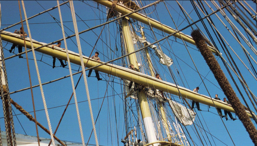 Taking the sail in on the Khersones. The footrope, on which the men stand, is clearly visible.